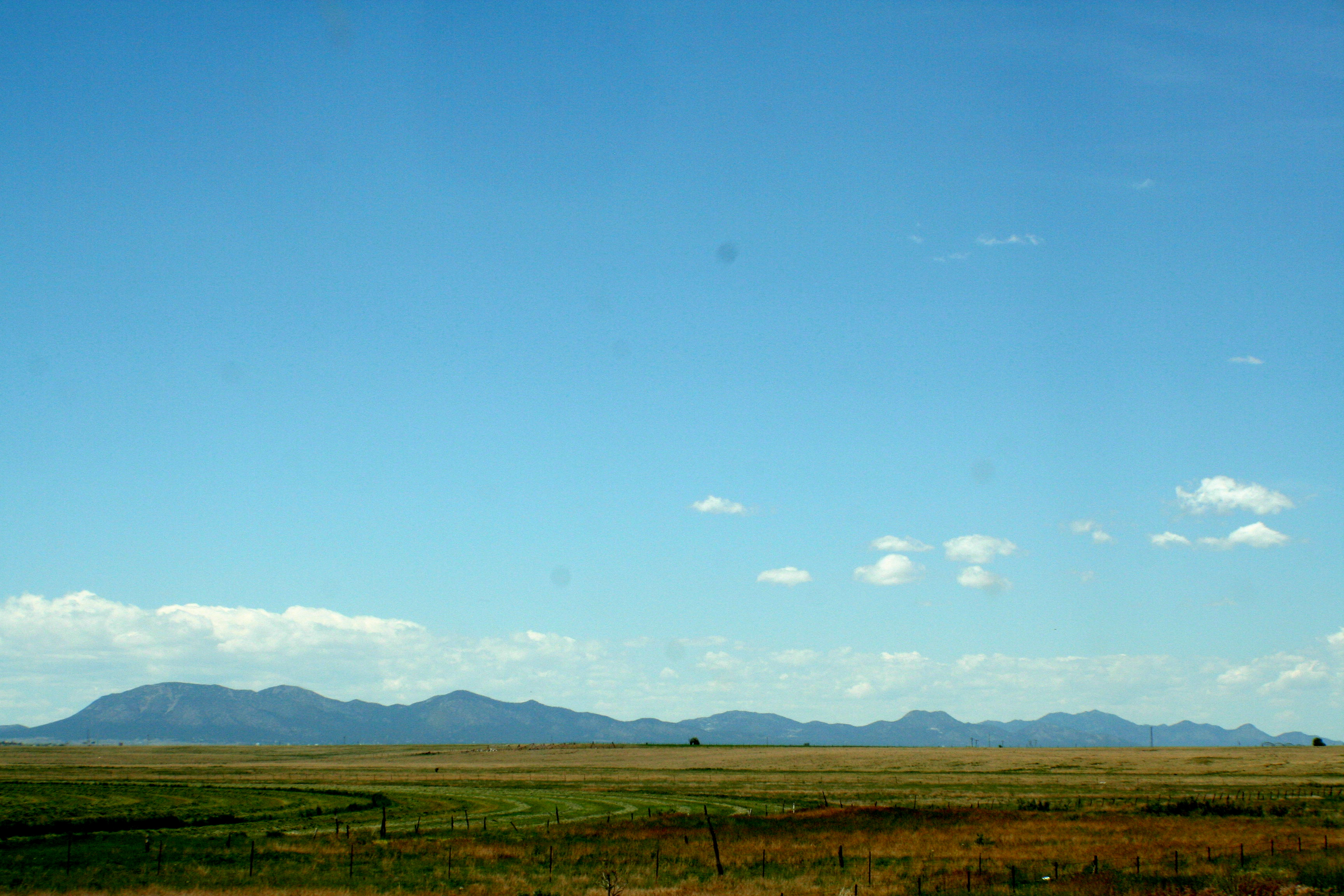 View of Sandia Mountains from Estancia, New Mexico in Torrance County